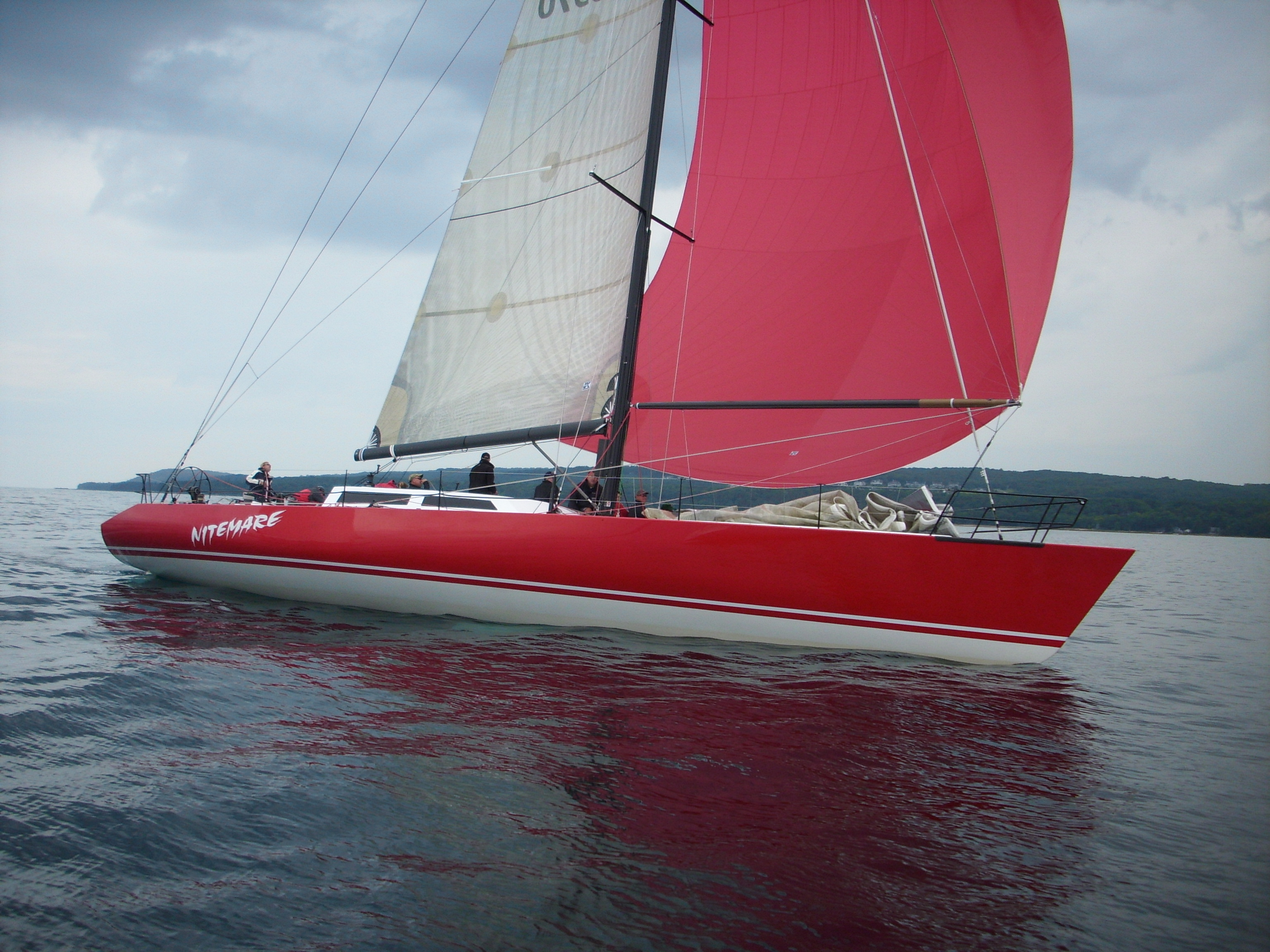 Nitemare, Hull #1 sails downwind in Lake Michigan off Harbor Spring, MI